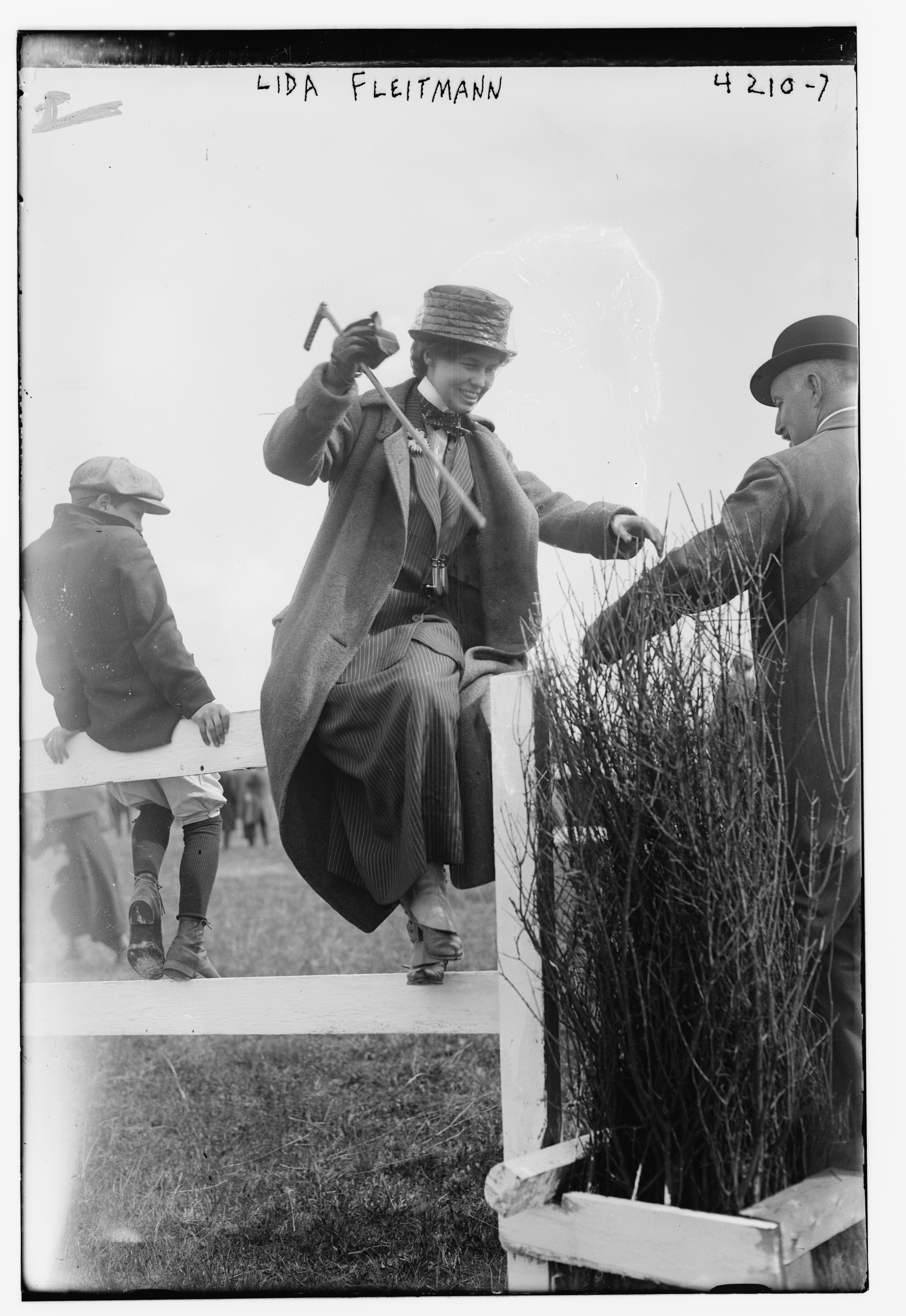 Lida Fleitmann Bloodgood at the Spring meet of the United Hunt Racing Association on May 12, 1917 at Belmont Terminal